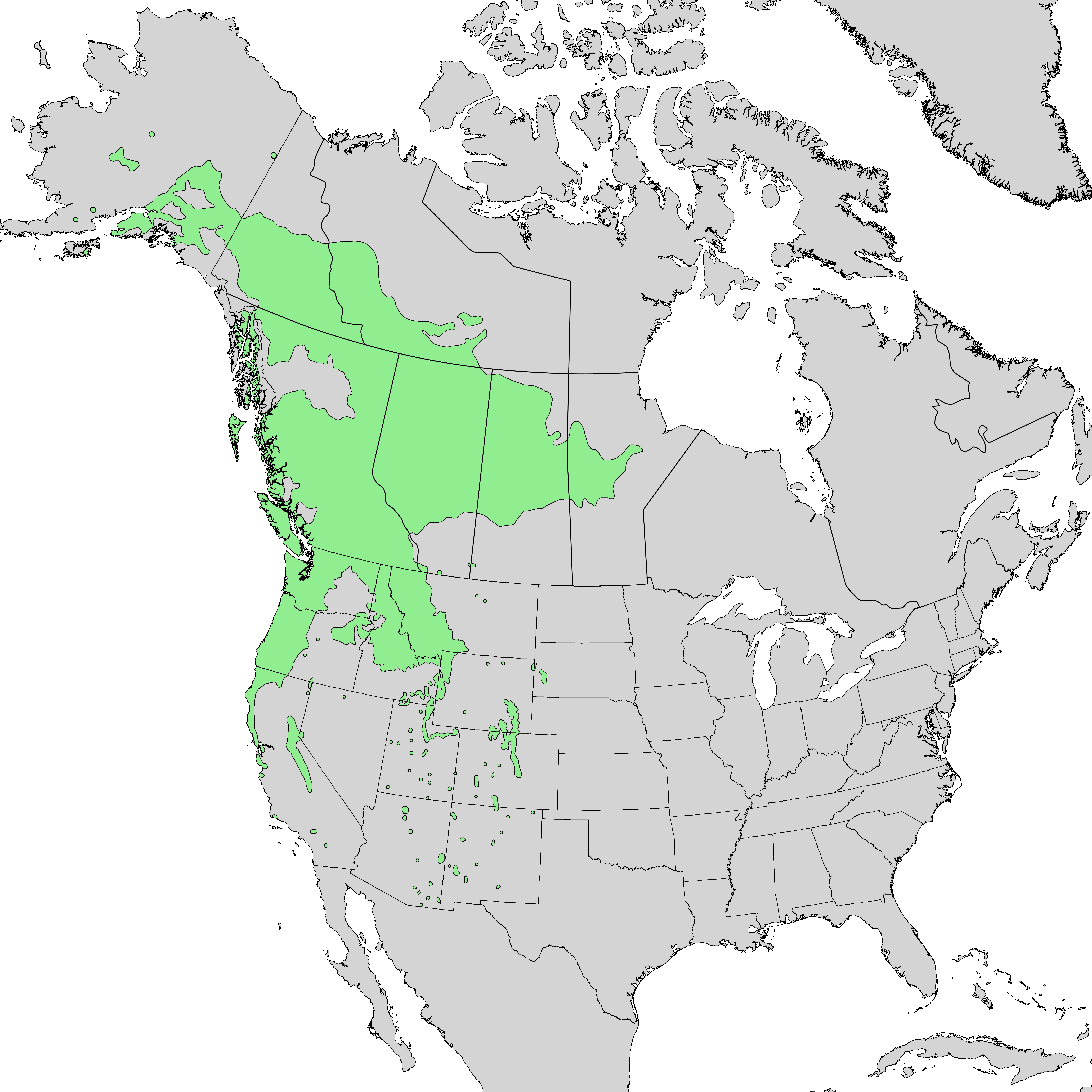 Natural distribution map for Salix scouleriana (Scouler willow)